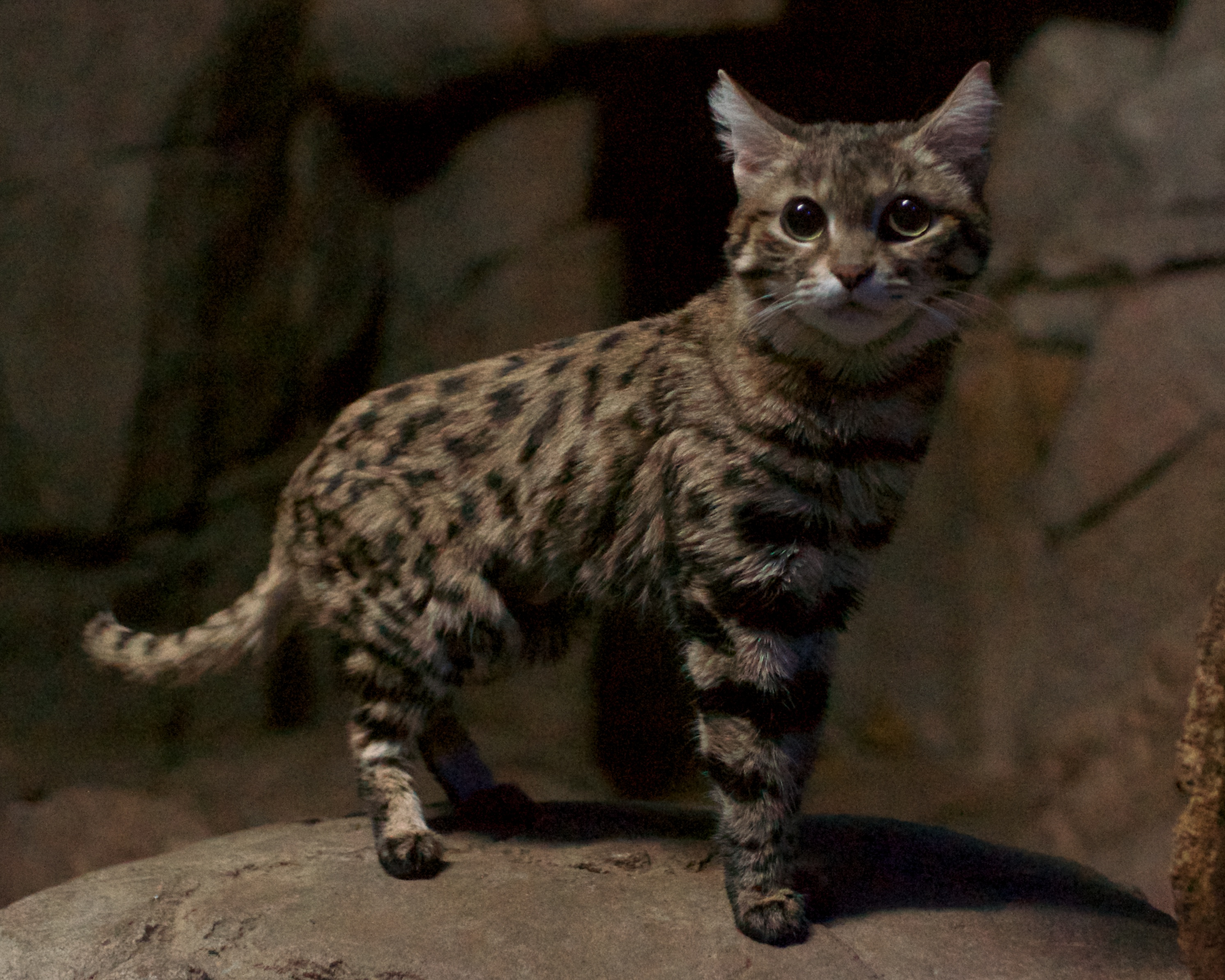 Fixed his eye